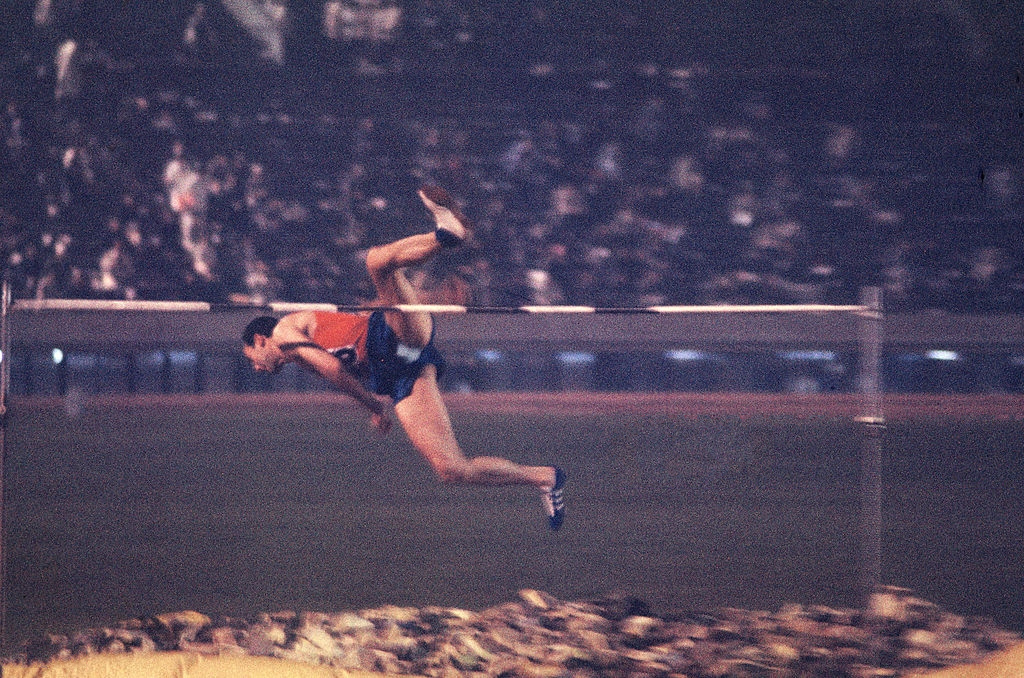 Valeriy Brumel at the Tokyo Olympics.